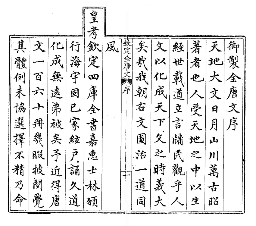 Qin ding quan Tang wen, Preface made by Jiaqing Emperor. Mar, 1814. (Jiaqing Emperor)